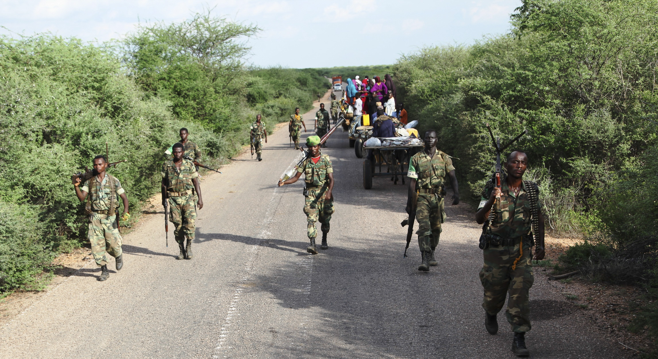 AMISOM reinforcement patrol clear Baidoa Mogadishu main road on 17th April 2014. AU UN IST PHOTO / Mahamud Hassan